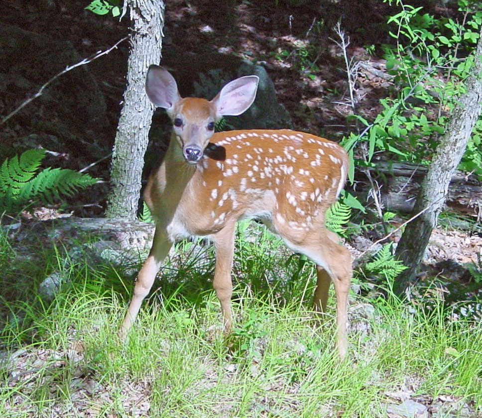 An image of a fawn deer (Odocoileus species) cropped down to put more focus on the fawn itself. This version: minor (levels) edit of orig pic by Elfer